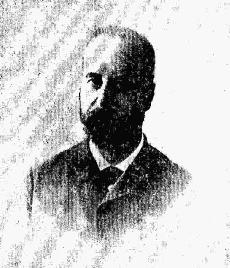 Émile Legrand